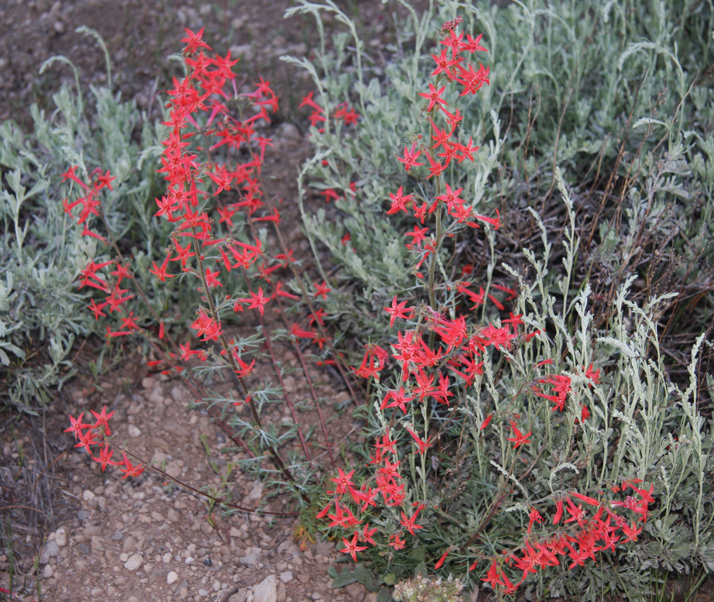 Scarlet gilia (Ipomopsis aggregata) plant, with sage. At 7850m above Minaret Vista.